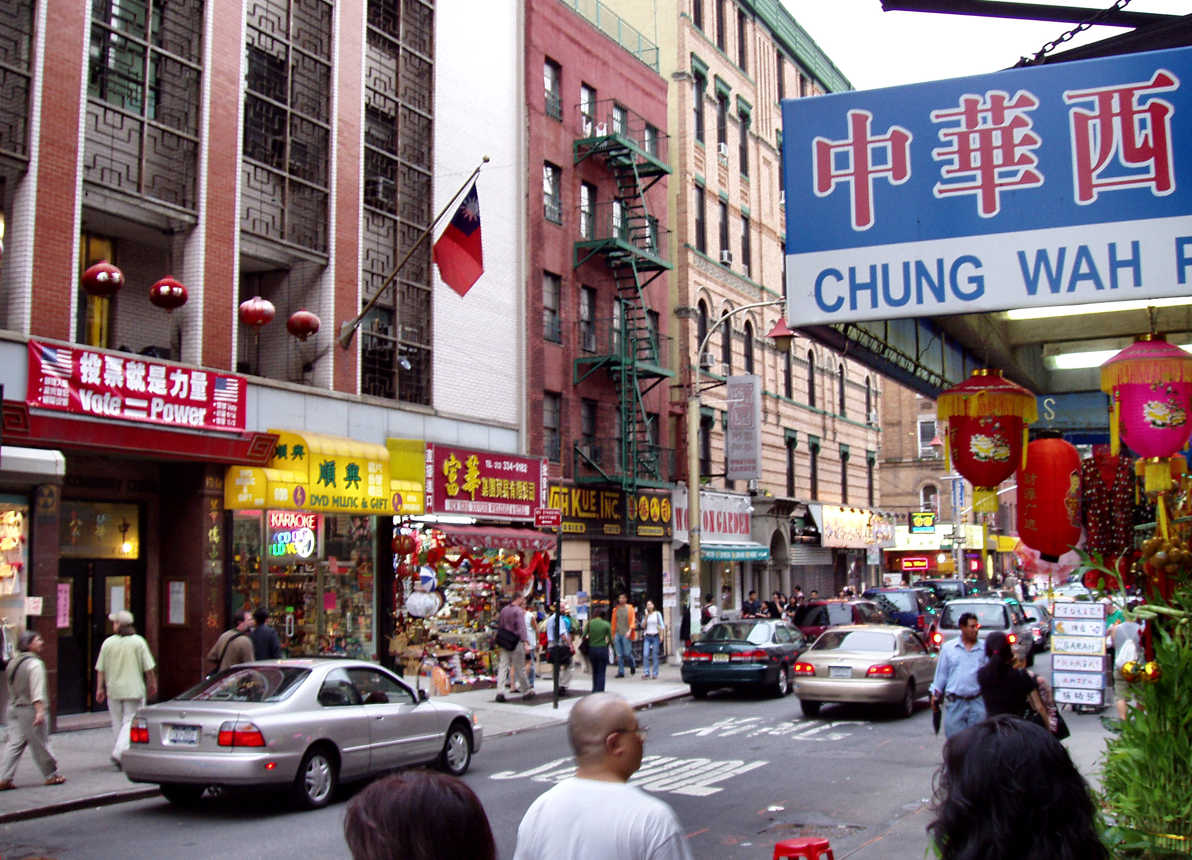 Mott Street in New York City, the traditional center of Chinatown, where the Chinatown Community Center is located.